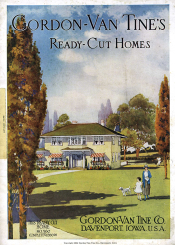 Cover of kit house catalog of plans published by Gordon-Van Tine Company, Davenport, Iowa, in 1916. I believe this image to be in the public domain because it was published in the United States before 1923. Found at [1]